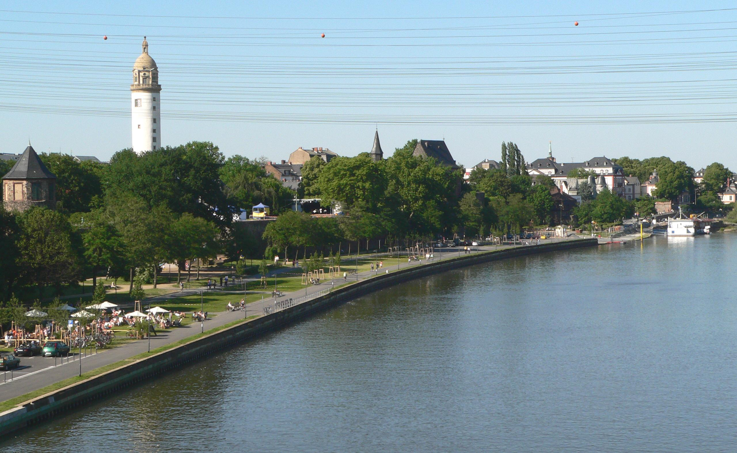 Main river bank in Höchst, called „Batterie“ („Battery“) with oxtower, Höchst Castle, Justin church and Nidda river estuary